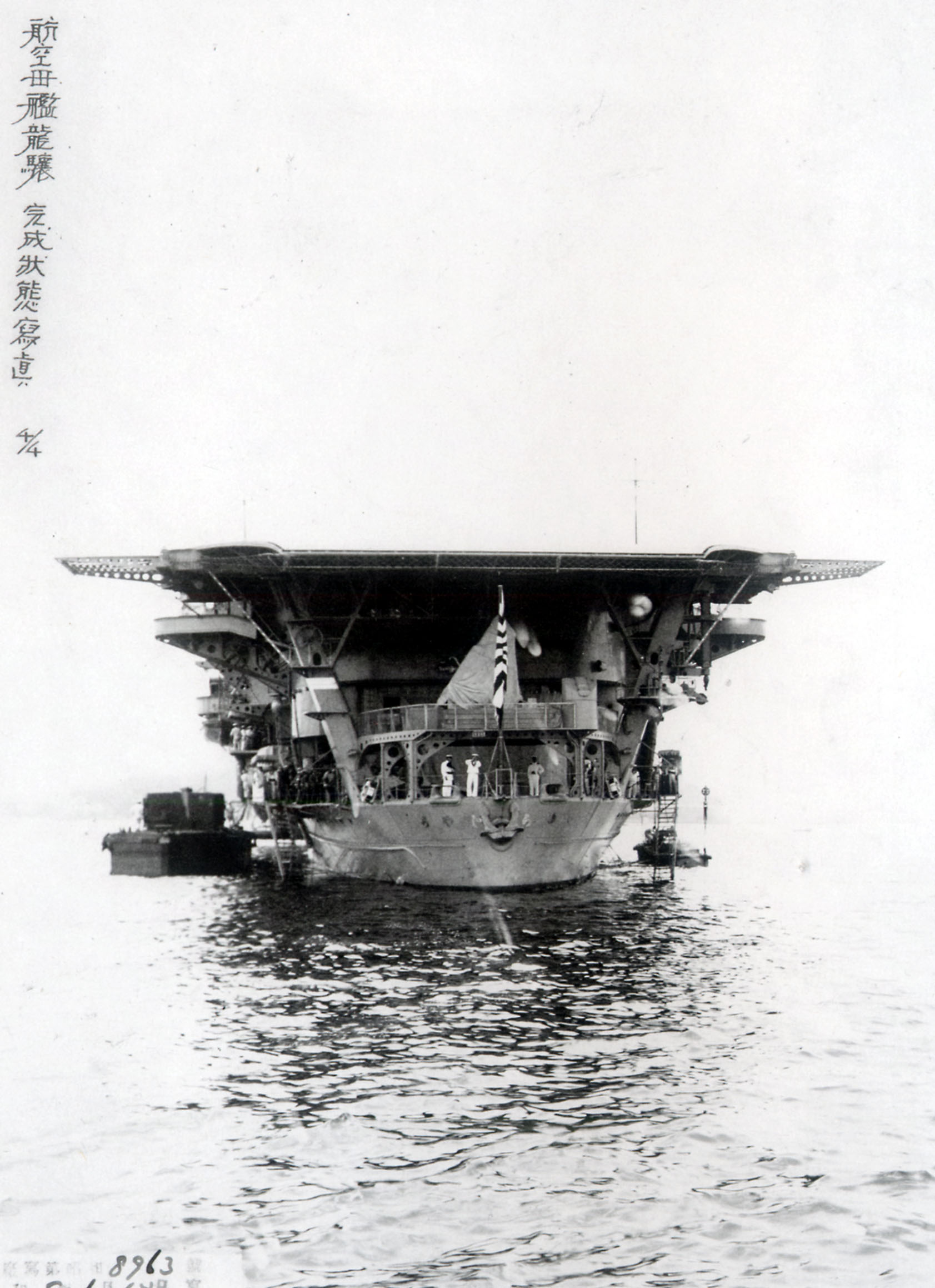 龍驤 日本海軍航空母艦。横須賀軍港に停泊中の龍驤を後ろから撮影した写真。 Light aircraft carrier Ryūjō at anchor in Yokosuka